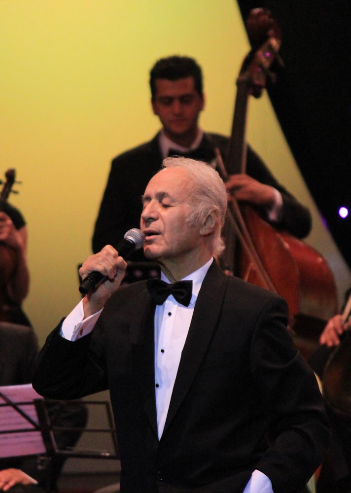 Homer Dizeyi at Silemani concert 2012 Kurdî: کۆنسێرتی هونەرمەند هۆمەر دزەیی لە سلێمانی، ٢٠١٢